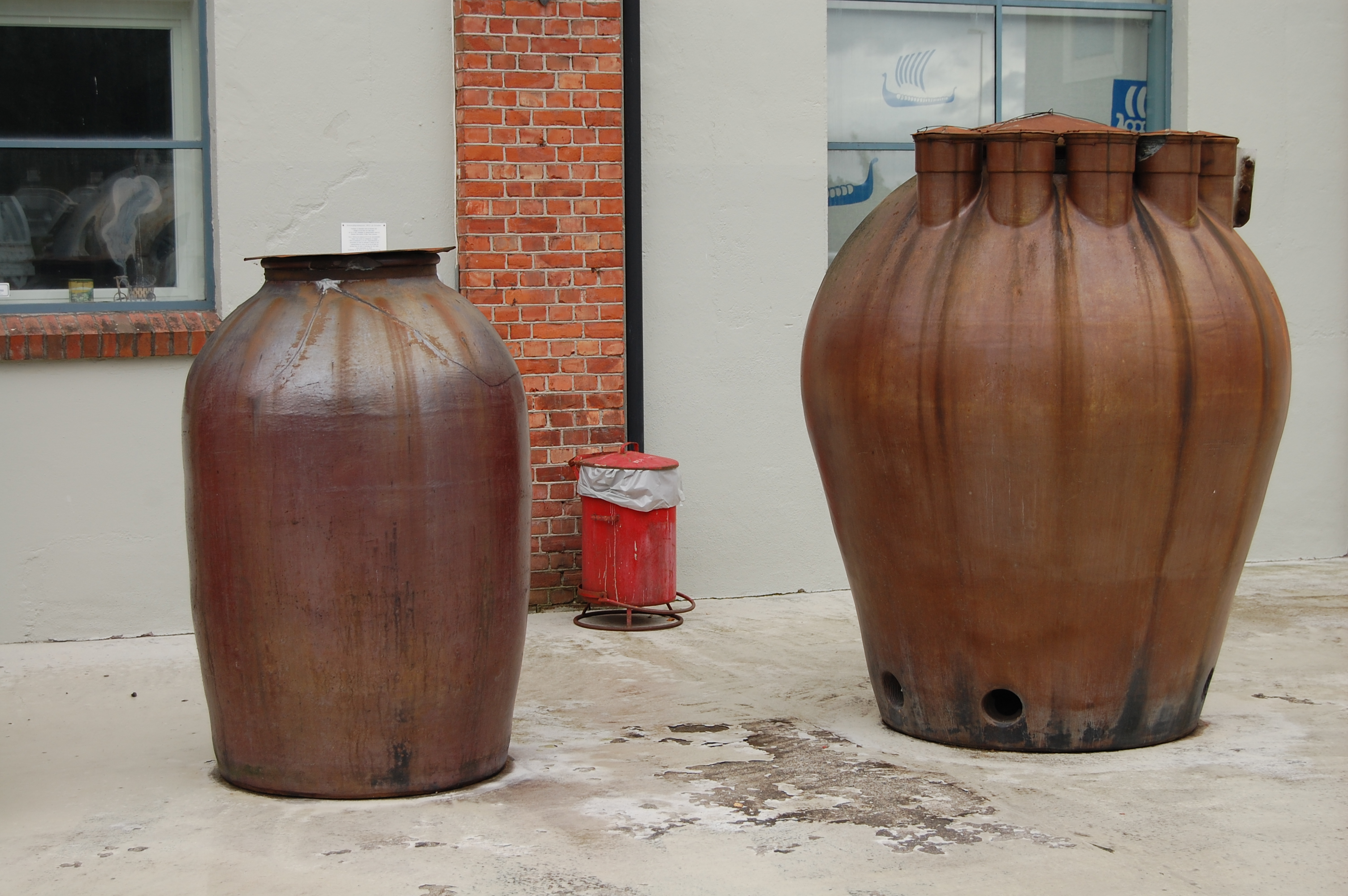 Ceramic pots for intermediate storage of the acid during the concentration process, Birkeland-Eyde process, exhibited at Notodden, Norway.